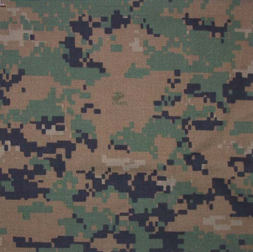 United States Marine Corps MARPAT pattern - woodland version.